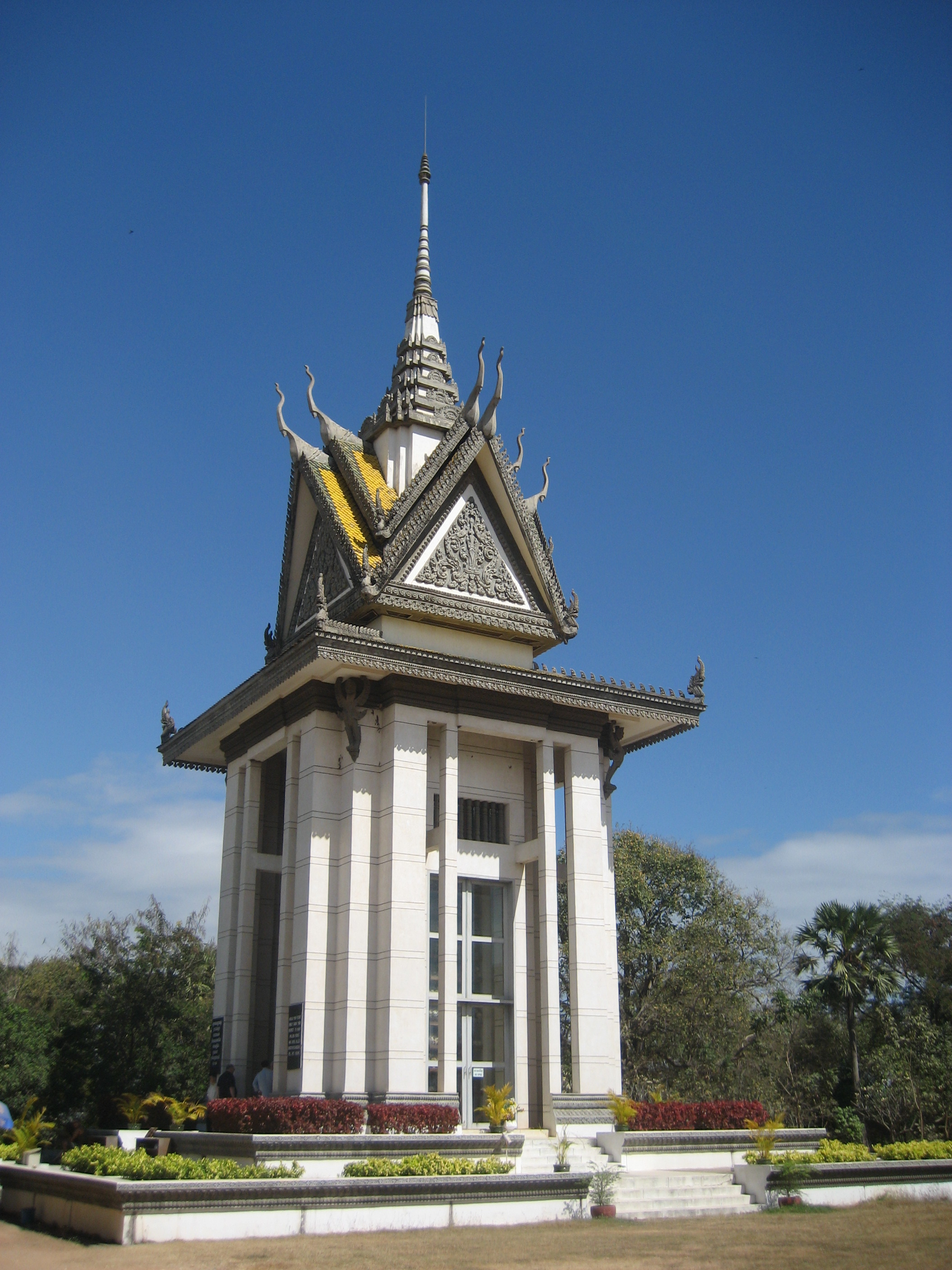 Phnom Penh, Killing Fields of Choeung Ek